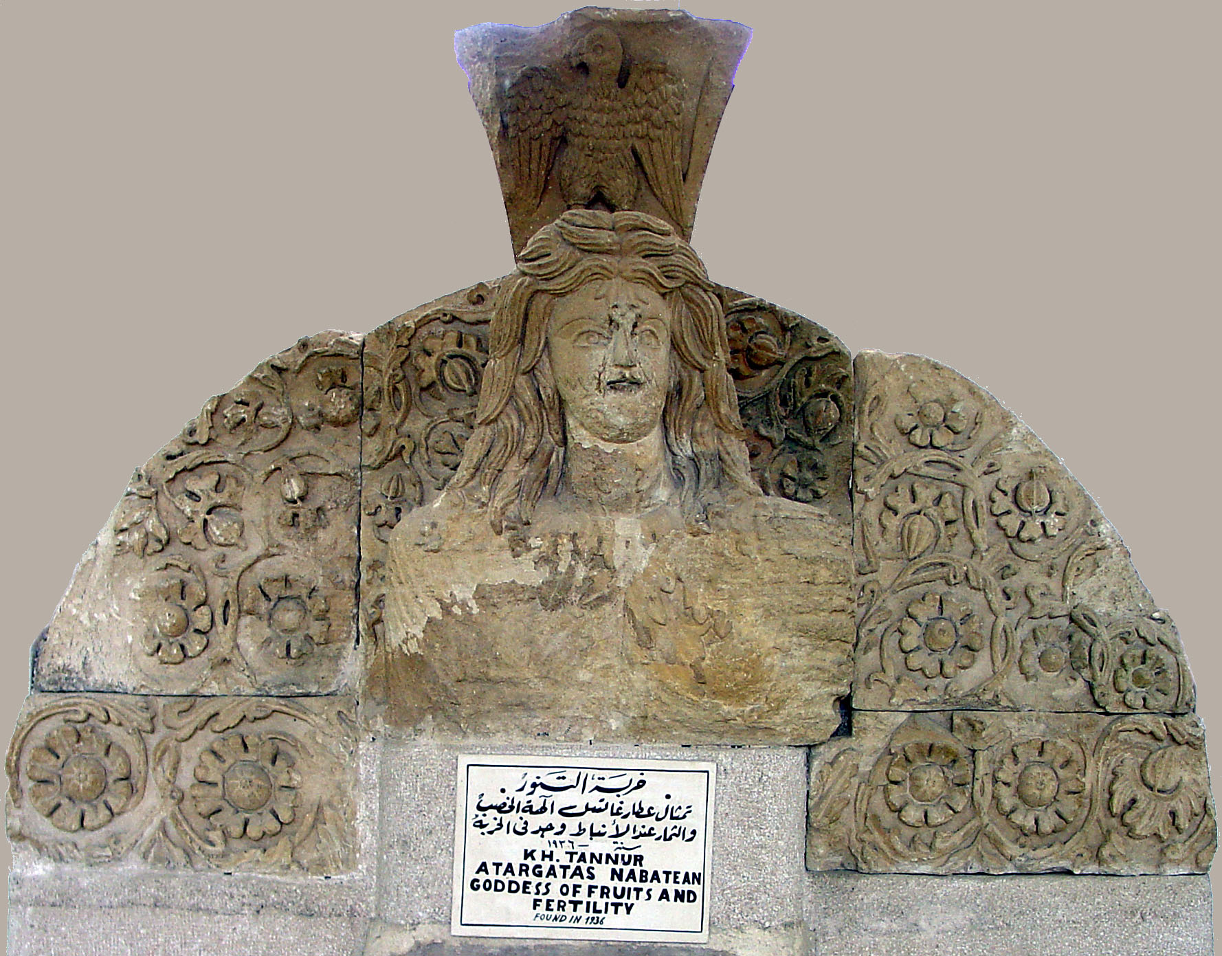 Nabataean, c. 100 AD. This statue of Atargatis, a fertility goddess, comes from the Nabatean temple at Khirbet Tannur.